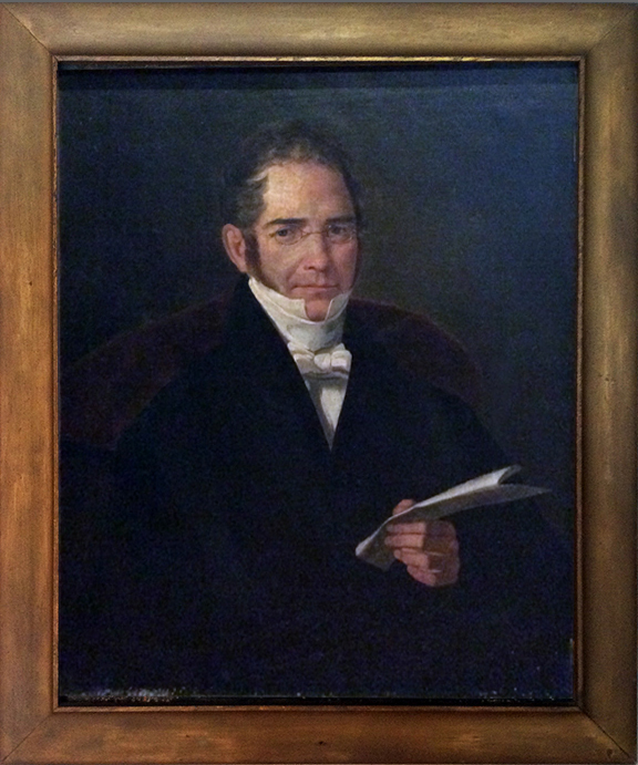 Original historic portrait. Created around 1830. Family possession.